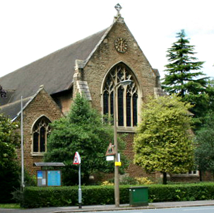 Parish church of St John the Baptist, Queens Road, Belmont, south London (formerly Surrey), seen from east-southeast